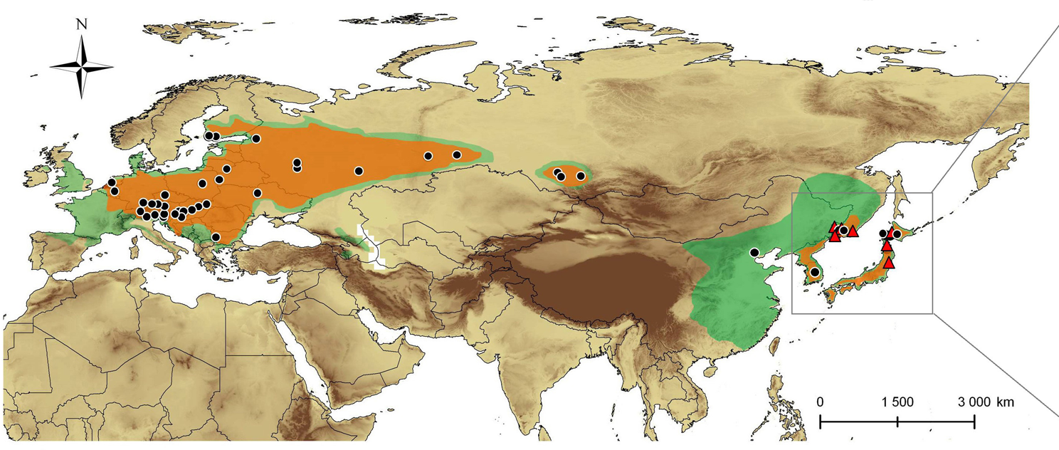 The present distribution of Phyllonorycter issikii is shaded in orange and the distribution of its host plant Tilia–in green. Localities where specimens of Phyllonorycter issikii and putative new Phyllonorycter species were collected are marked by black circles and red triangles respectively